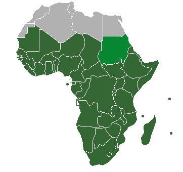 Dark and light green: Definition of "Sub-Saharan Africa" as used in the statistics of many the UN institutions. Light green: However, Sudan is also classified as North Africa by the United Nations.